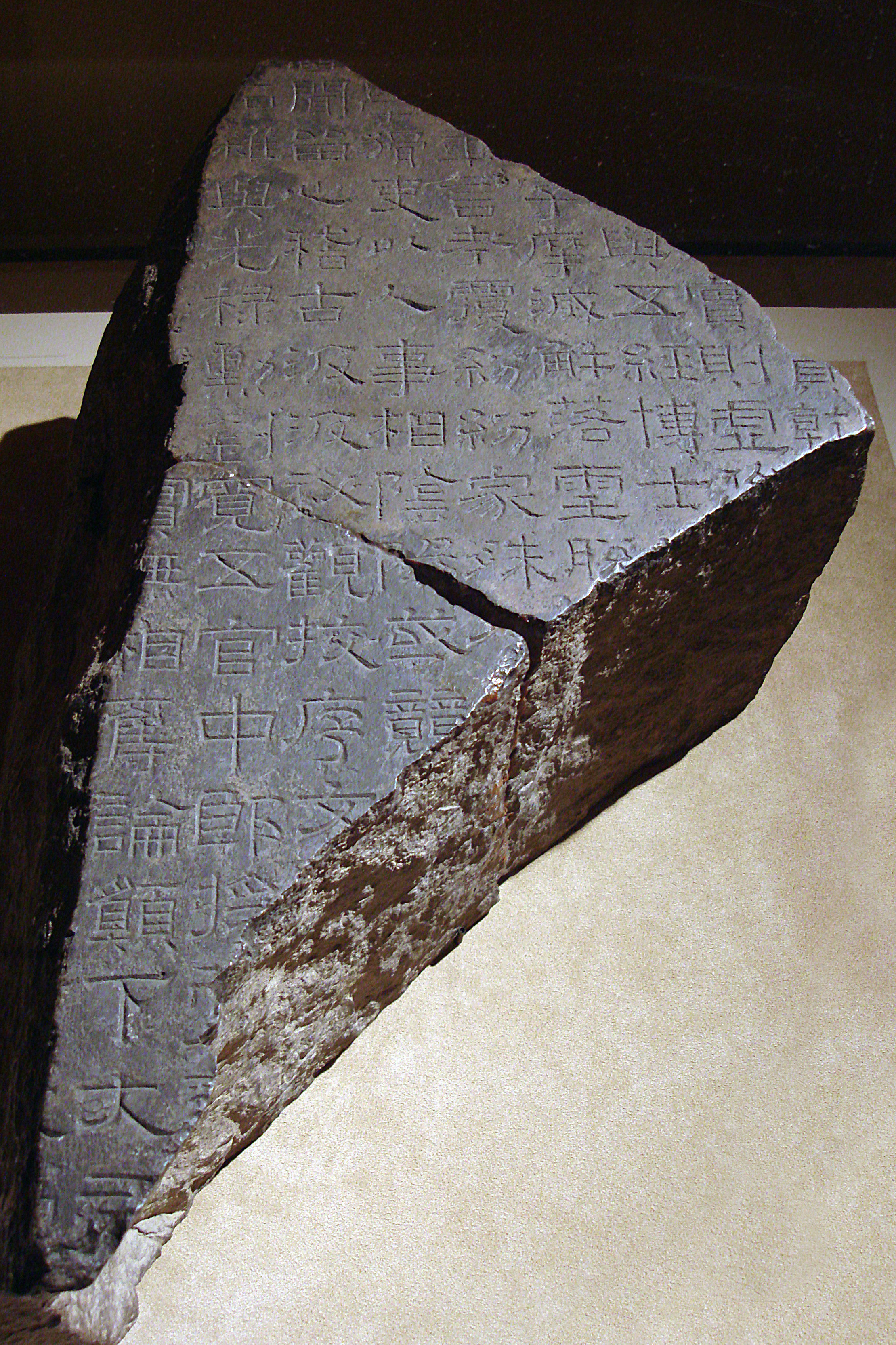 A fragment of the Xiping stone classics Eastern Han Dynasty (A.D. 25 - 220) The First Emperor of the Qin Dynasty, wishing to control political though, ordered the burning of many Confucian classics including the Book of Songs, the Book of History, the Book of Changes, the Book of Rites, the Spring and Autumn Annals, the Analectss and the commentary of Gong Yang. These classics were carved in stone in A.D. 172 - 178, and erected at the Imperial College in Luoyang in an attempt to settle differing interpretations of Confucian classics.